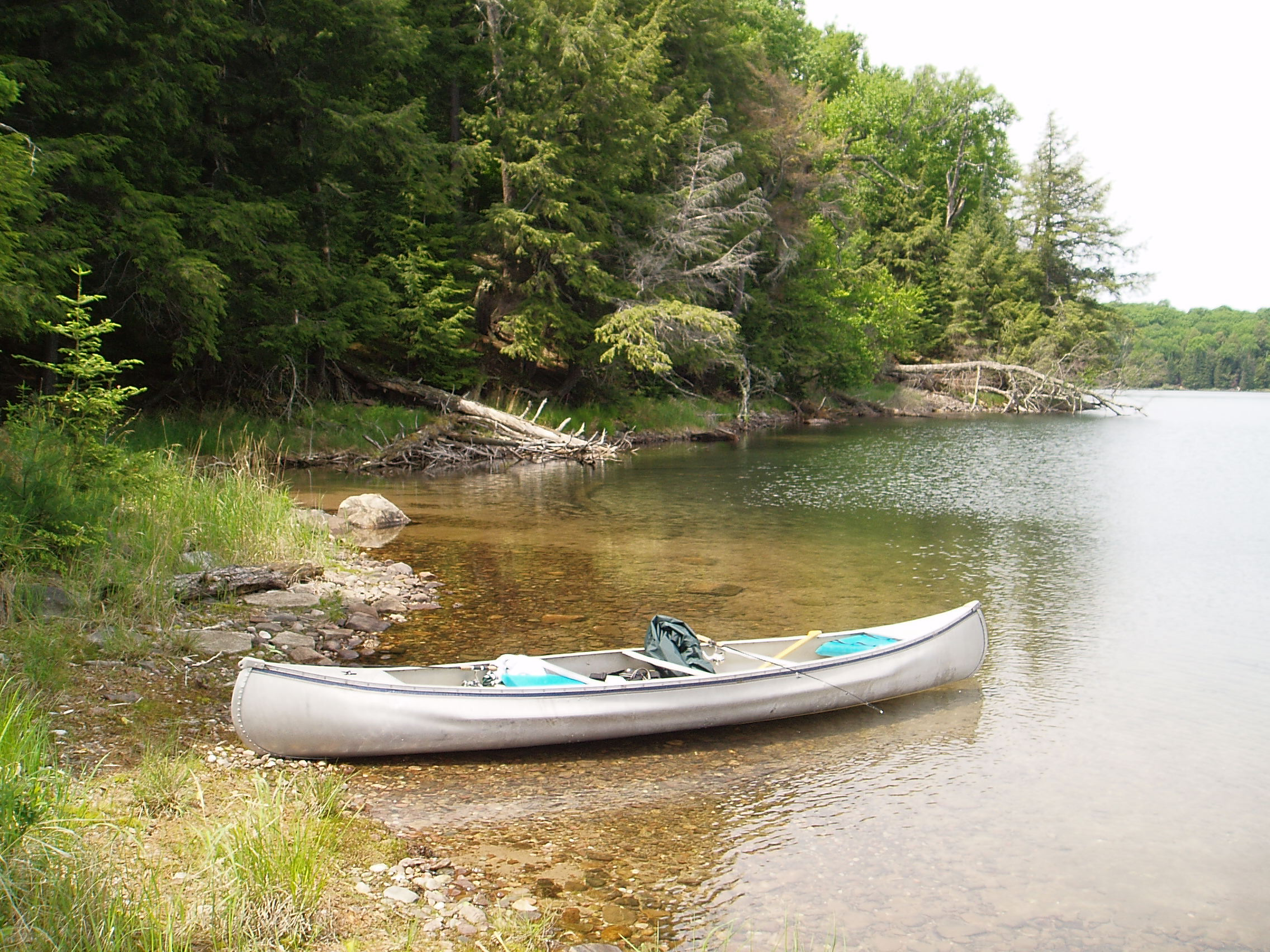 Michigan's Loon Lake, photo taken on 6/7/2005 by H.G. Judd